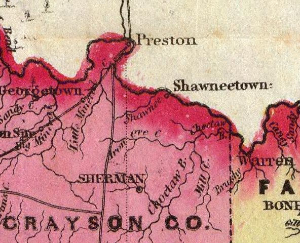 Portion of J. De Cordova's Map Of The State Of Texas Compiled from the records of the General Land Office of the State by Robert Creuzbaur, Revised and Corrected by Charles W. Pressler. Published by J.H. Colton & Co. No. 172 William St. New York 1856. Engraved by J.M. Atwood, New York. Entered ... 1856 by J. De Cordova ... Texas. Showing northern Grayson County.